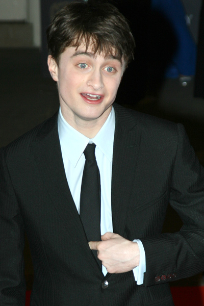 Daniel Radcliffe at the BAFTA Film Awards 2008